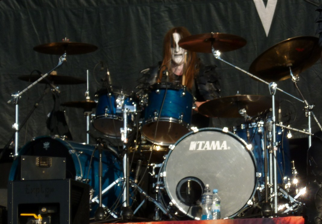 Dominator, drummer of Dark Funeral, performing live at Wacken Open Air 2012.